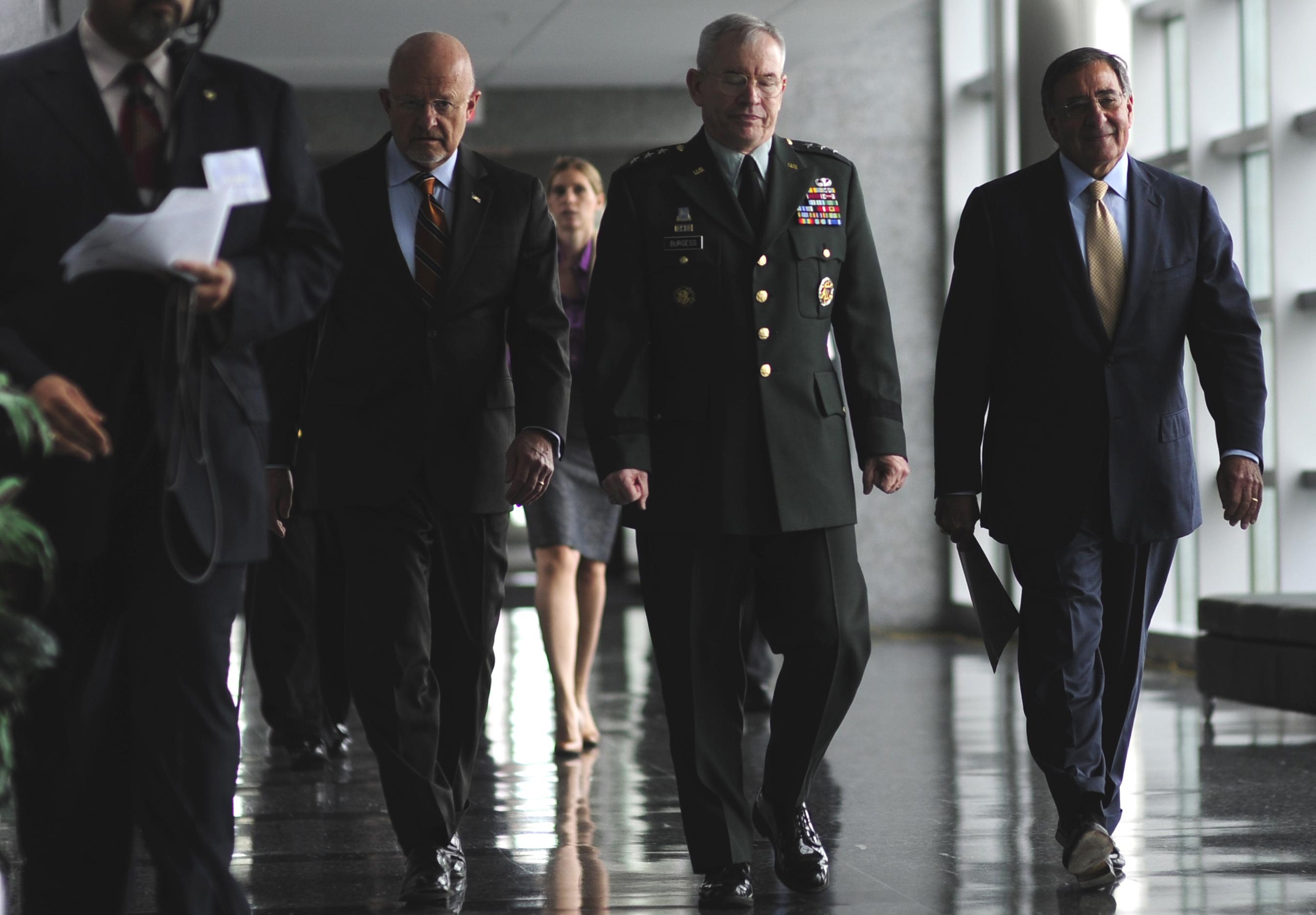 Defense Secretary Leon E. Panetta walks with James Clapper Jr., left, director of National Intelligence, and Lt. Gen. Ronald Burgess Jr., director of the Defense Intelligence Agency, before the agency's 50th anniversary commemoration ceremony on Joint Base Anacostia-Bolling in Washington, D.C., Sept. 29, 2011.